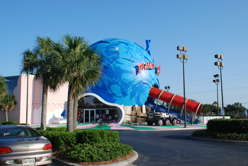 Planet Hollywood at Myrtle Beach, South Carolina